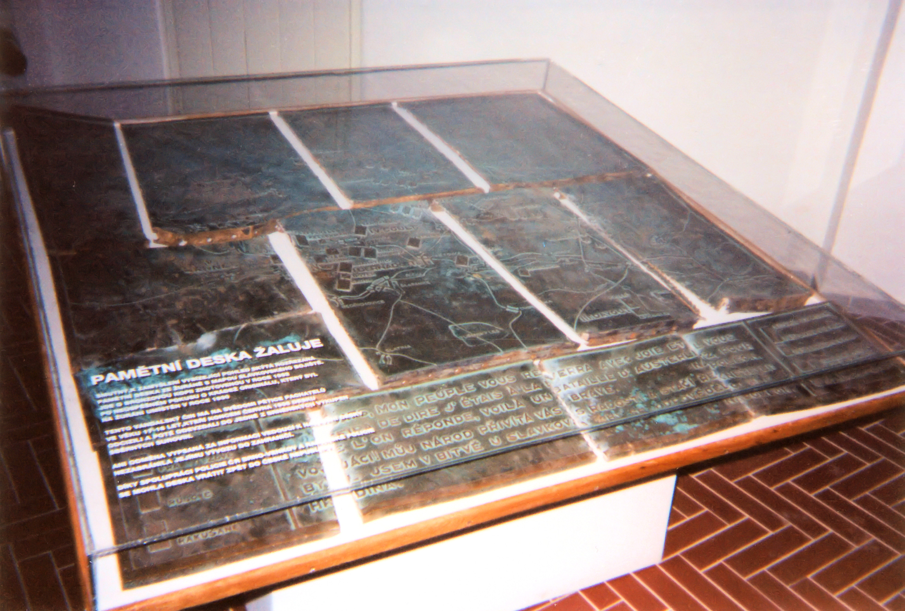 Destroyed bronze map from the memorial on the top of the Žuráň hill, exposed in the Šlapanice museum in December 1995.